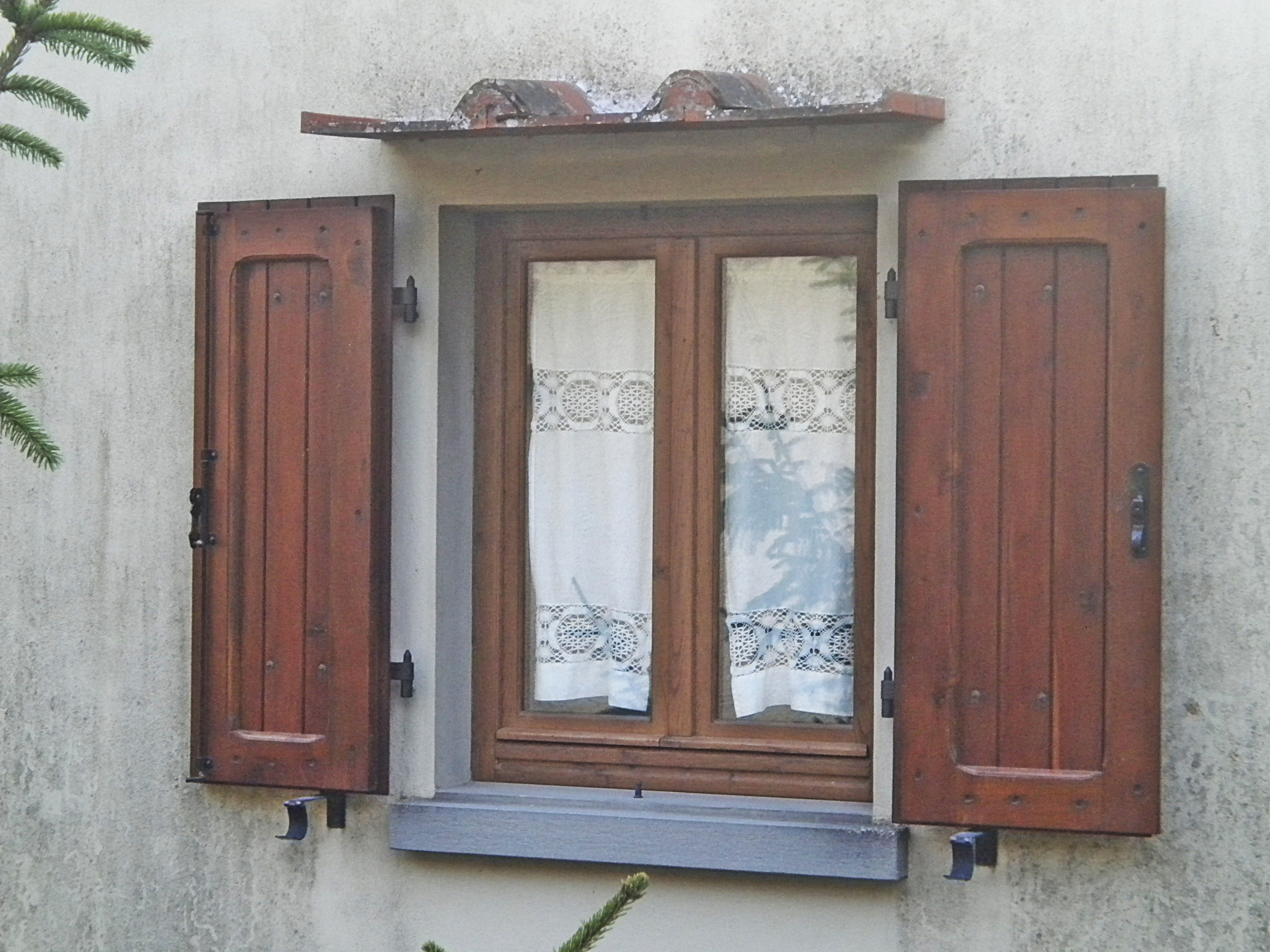 window